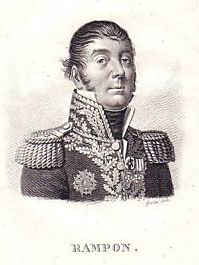 engraving of Rampon